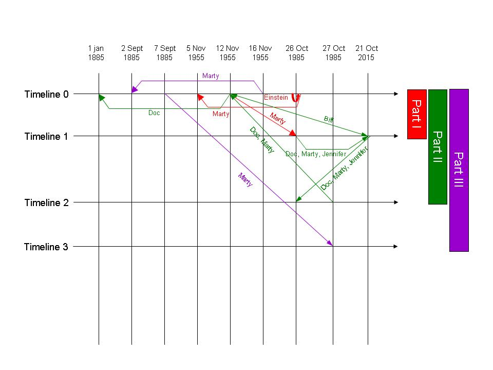 my own vision of the trips of the caracters : a new reality is created only if smthg important has changed in the past (ex : Einstein does nothing so it comes back in the same reality as its departure)